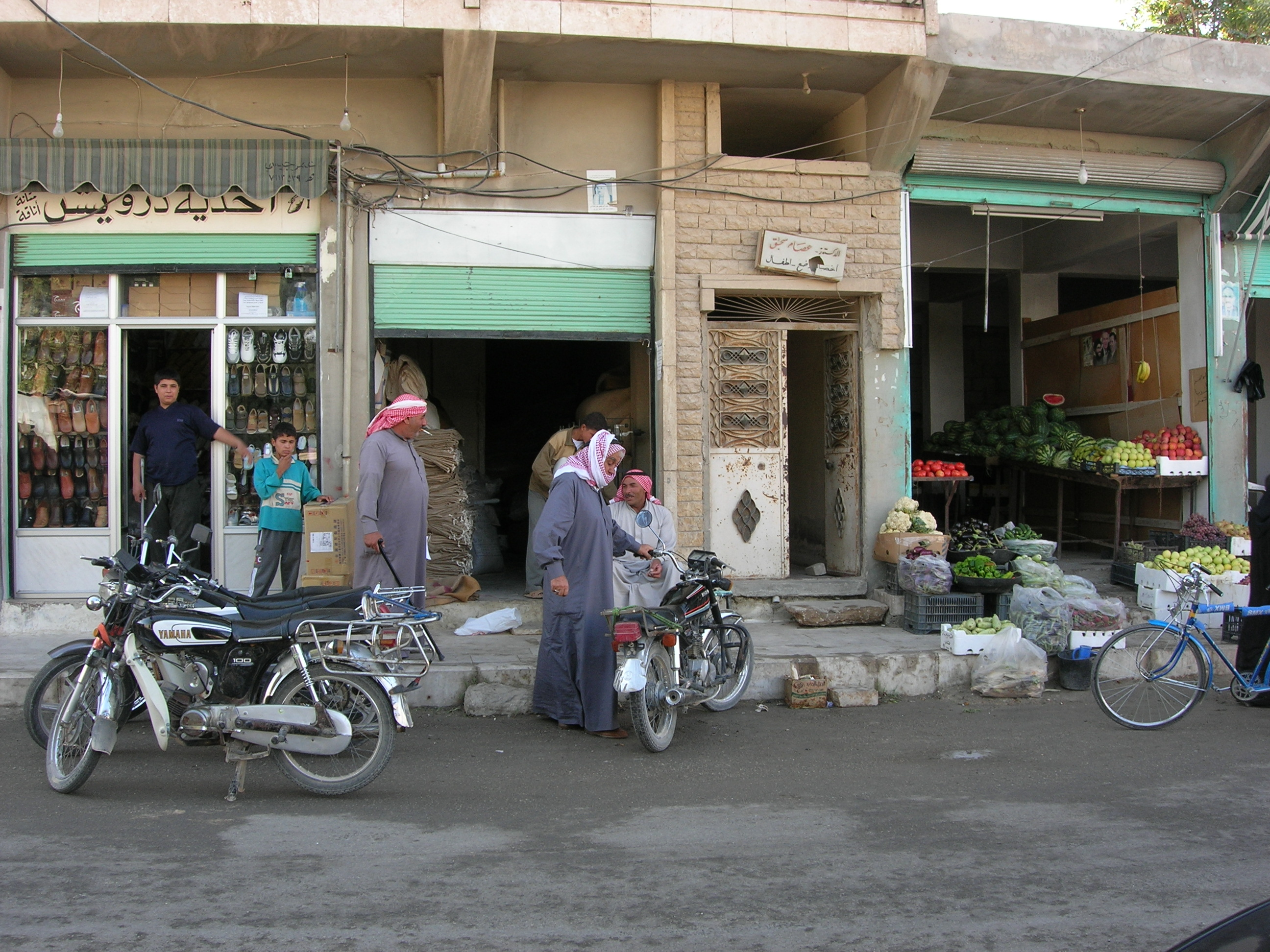 A street view of Manbij city